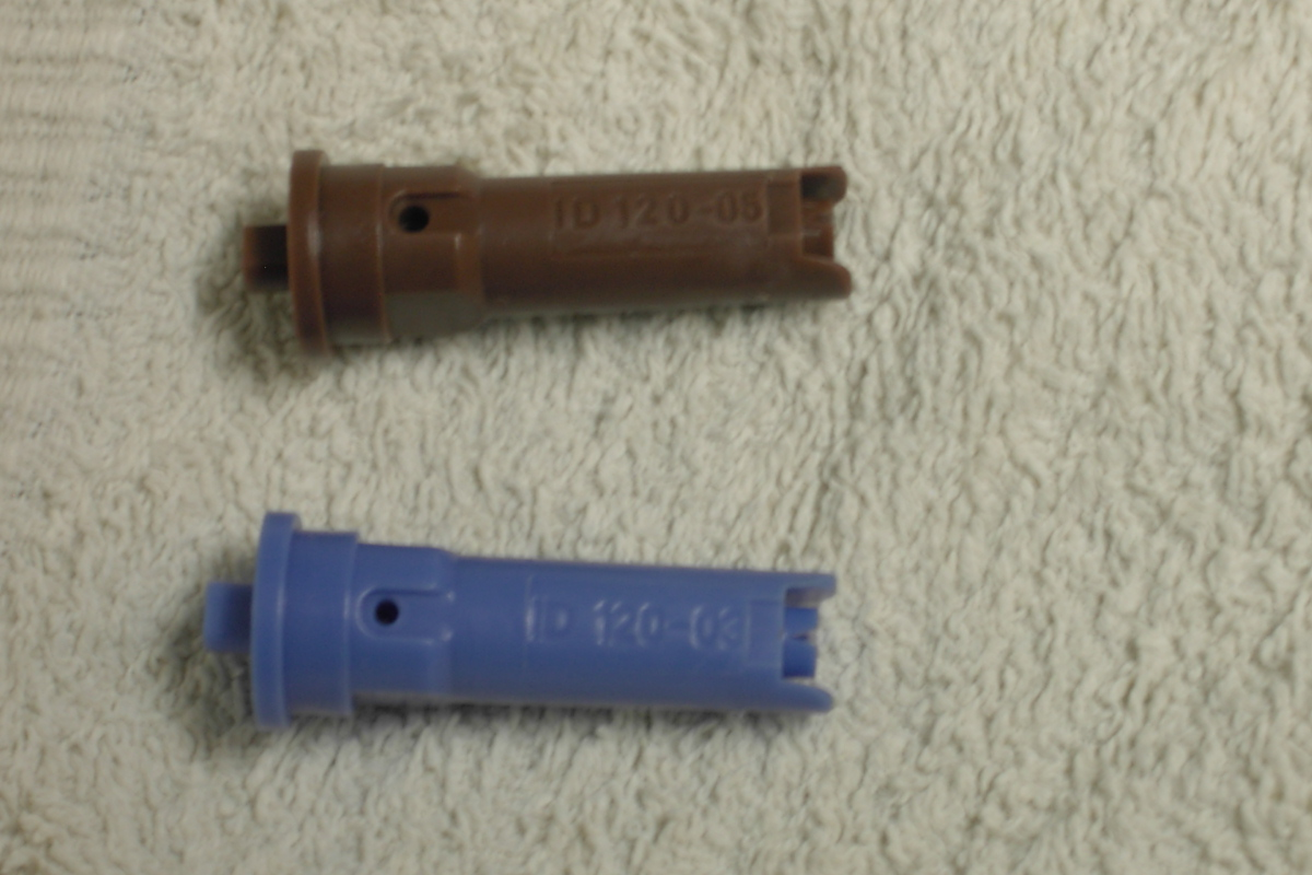 Lecher GmbH parts of a field sprayer ID 120-03 (blue) and ID 120-5 (brown)